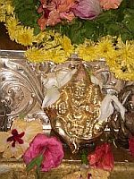 Sri Lakshmi Nrusimha at Balekudru Shri Matha